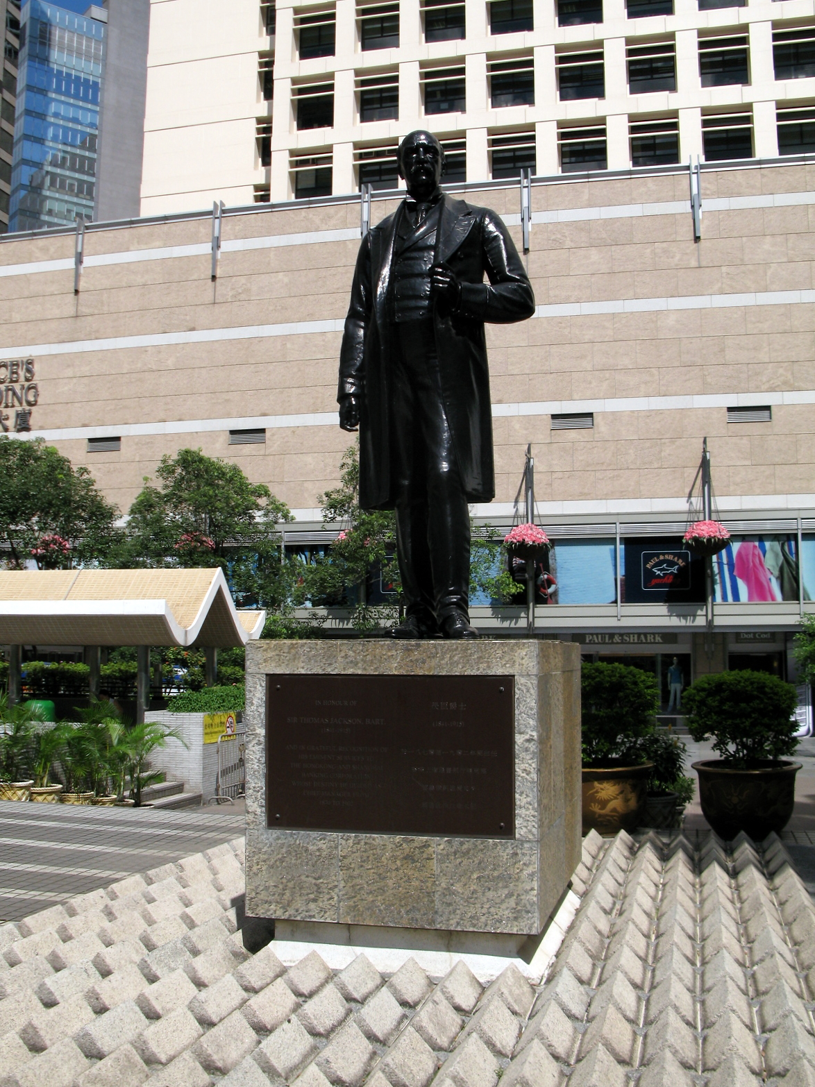 HK Statue Square 皇后像廣場zh:昃臣爵士銅像